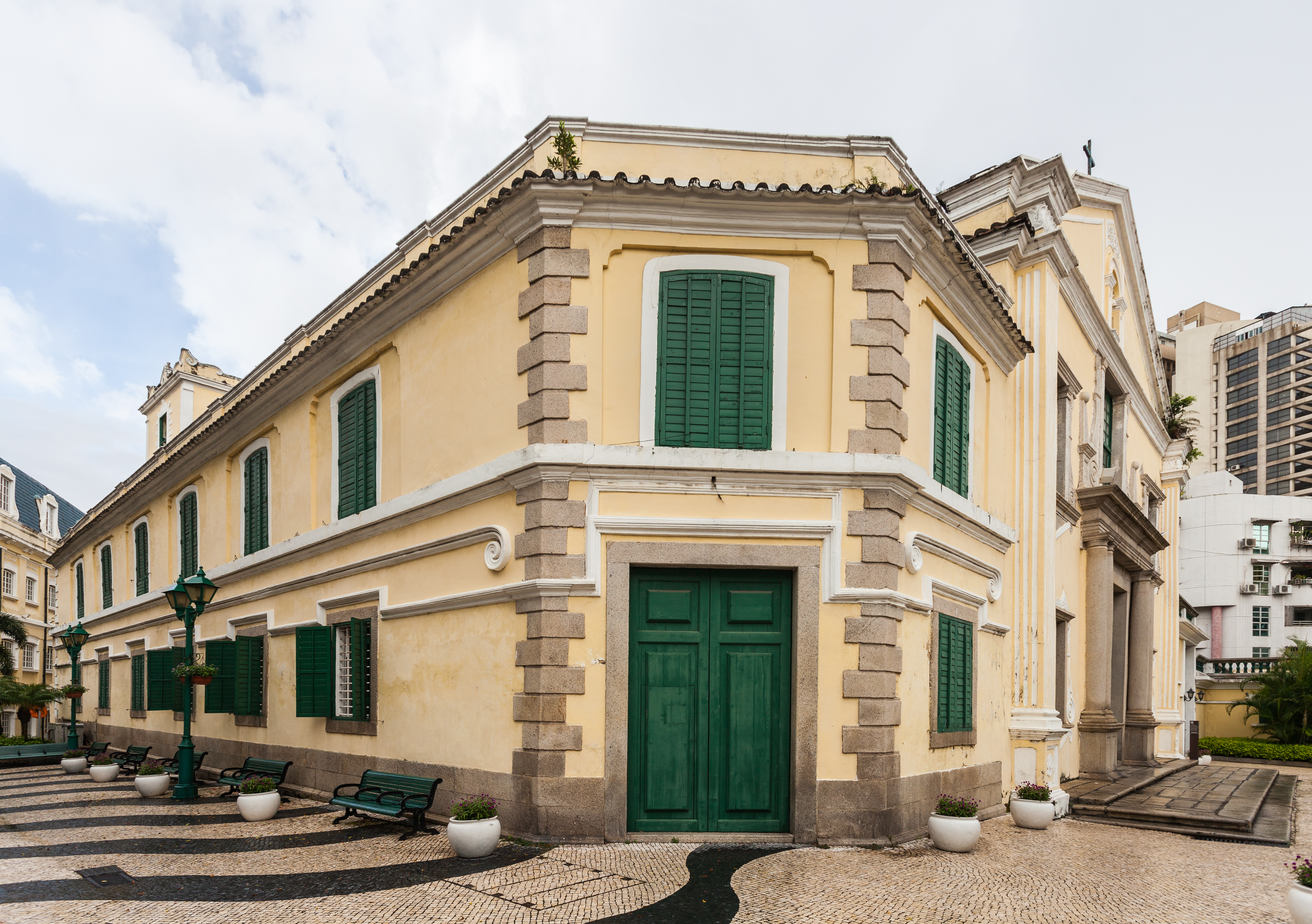 Church of San Augustin, Macau